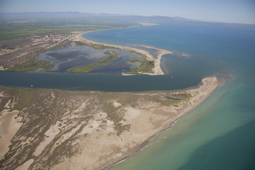 Aerial picture of the Ebro river's mouth as it enters into the Mediterranean sea by the Ebro's delta.